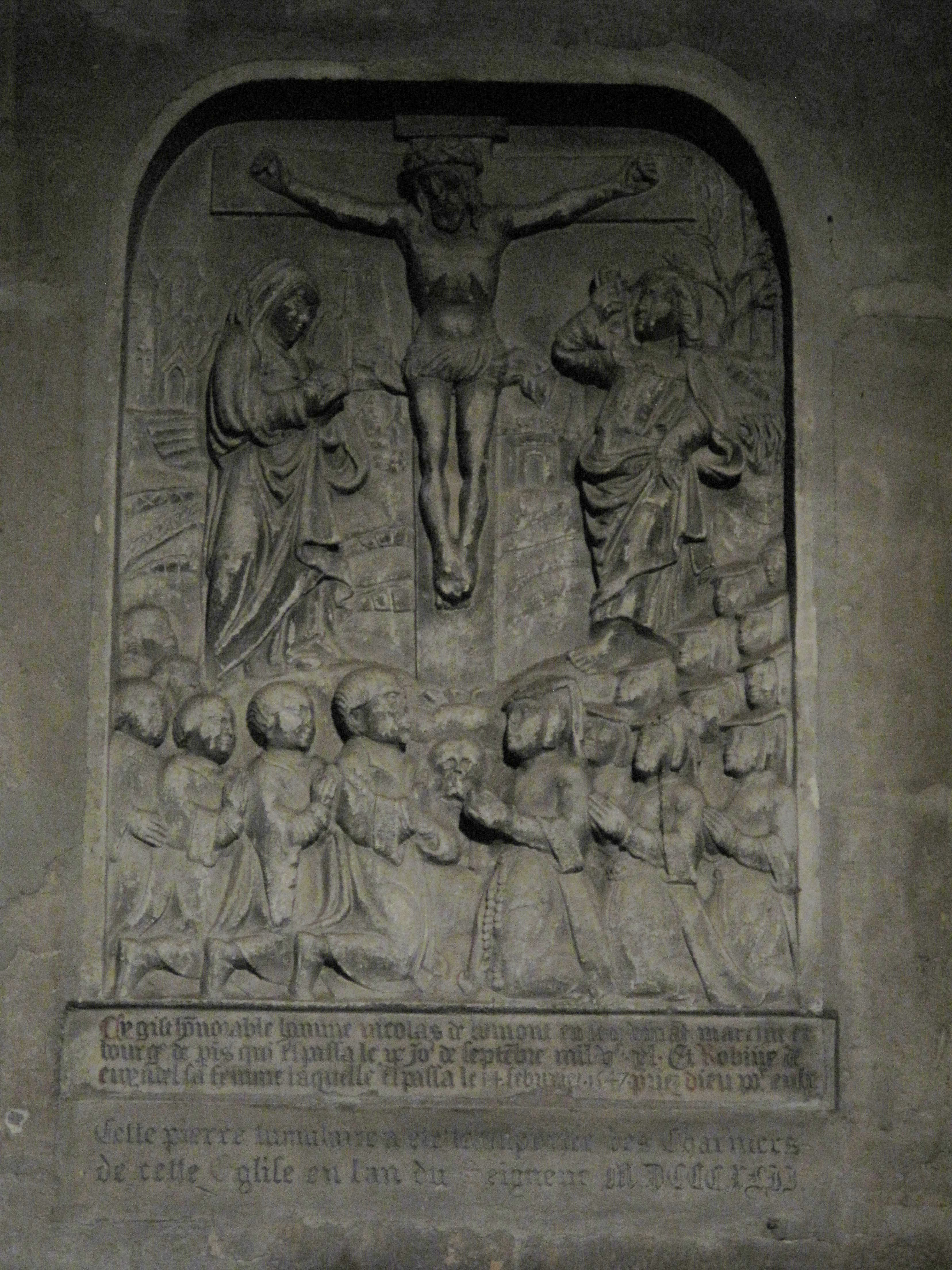 Gravestone of Nicholas de Bomont and his wife. With their fifteen children kneeled before the Cross of Jesus, with the Virgin and the apostal Saint-John. This gravestone is on the North wall of the church Saint-Séverin in Paris.